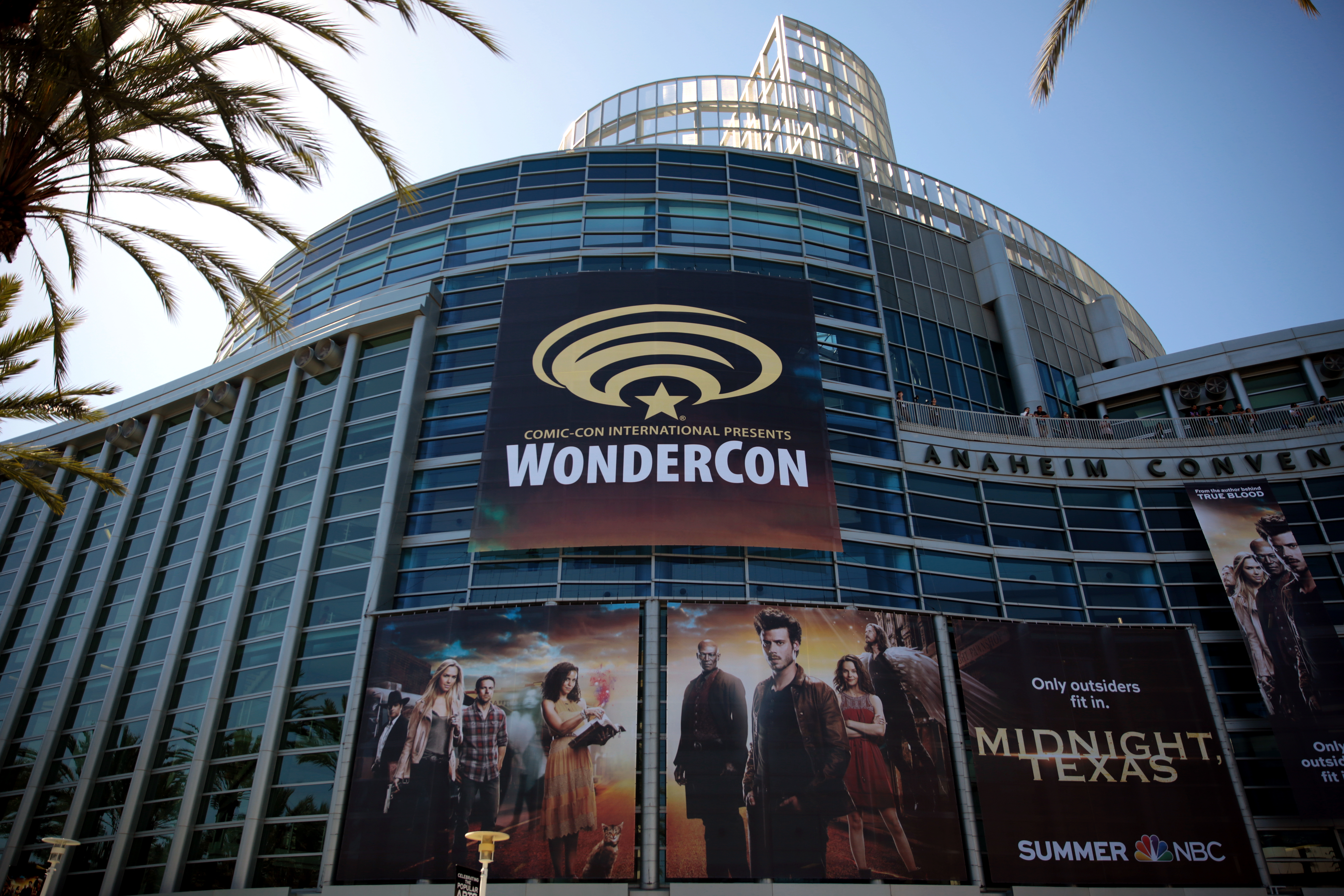 The 2017 WonderCon at the Anaheim Convention Center in Anaheim, California.